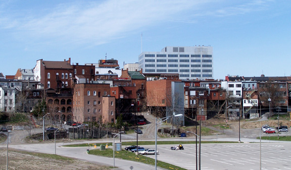 Taken by User:Trappy, April 2006. This is the "lower level parking lot" in downtown St. Catharines, Ontario. The area was once the site of the original Welland Canal. I took this photograph personally with my Kodak EasyShare Z740 digital camera, and therefore release it to the public.